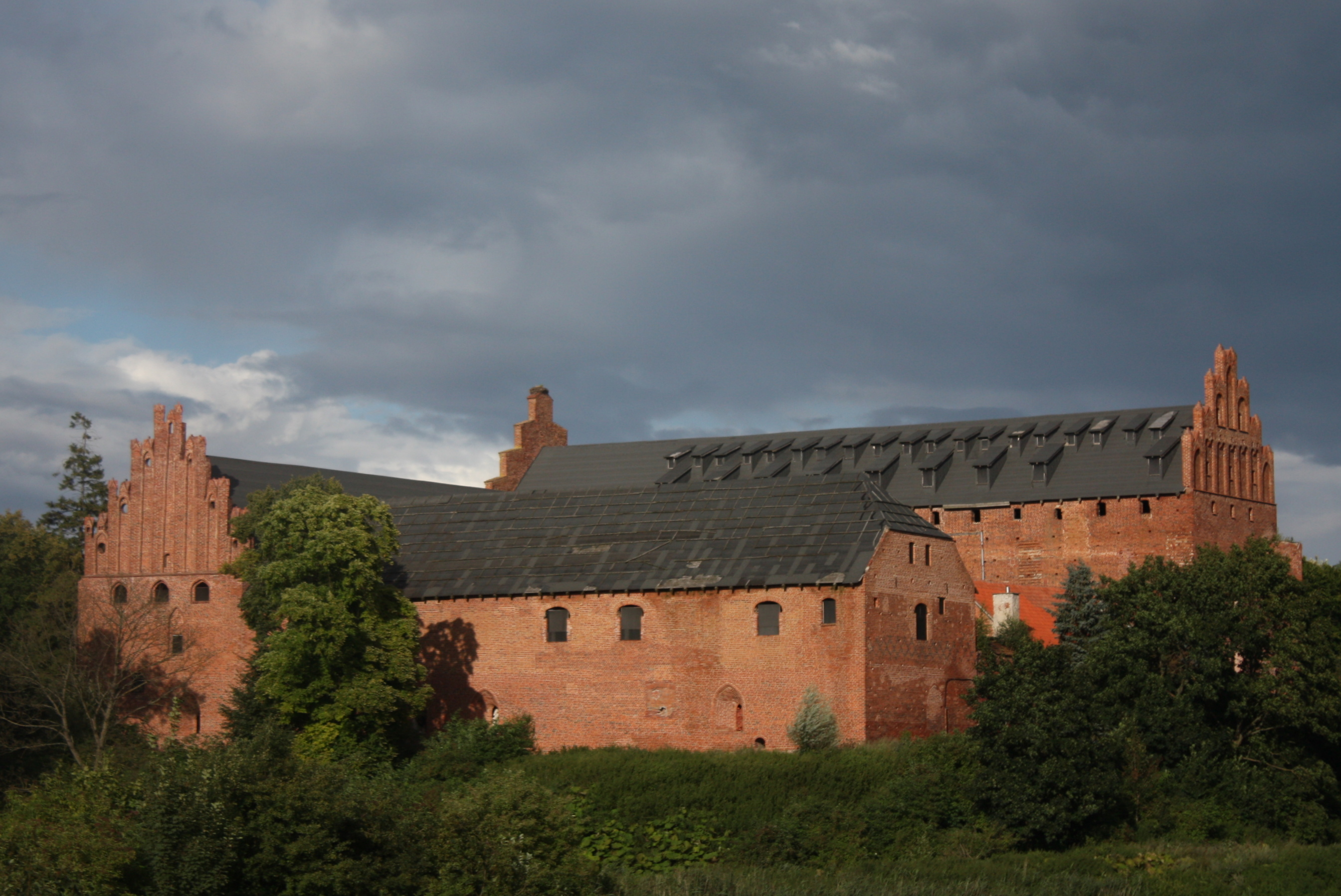 This photo of Warmian-Masurian Voivodeship was taken during Wikiexpedition 2012 set up by Wikimedia Polska Association.You can see all photographs in category Wikiekspedycja 2012. The making of this document was supported by Wikimedia Polska.